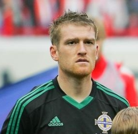 Steven Davis representing Northern Ireland against Russia in FIFA World Cup qualifier in 2012.